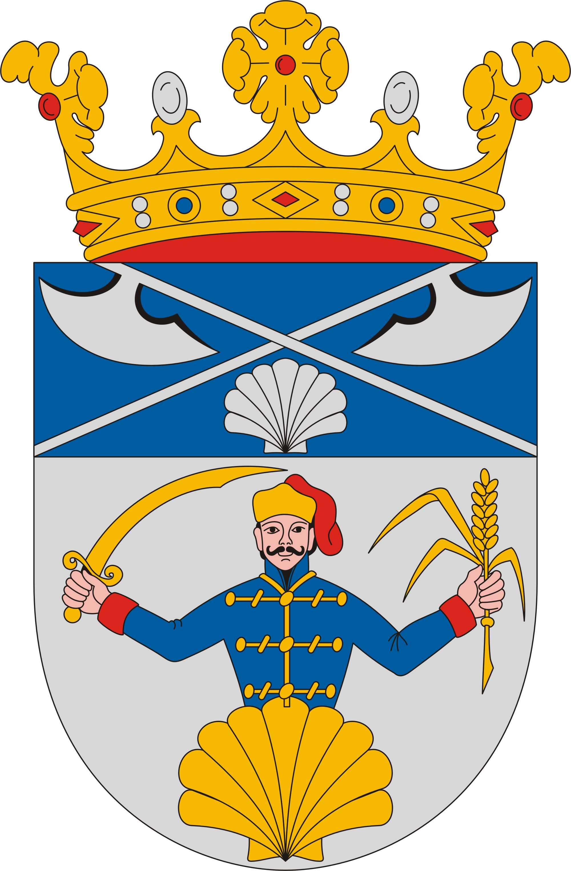 Coat of arms of Fülöpjakab, Hungary